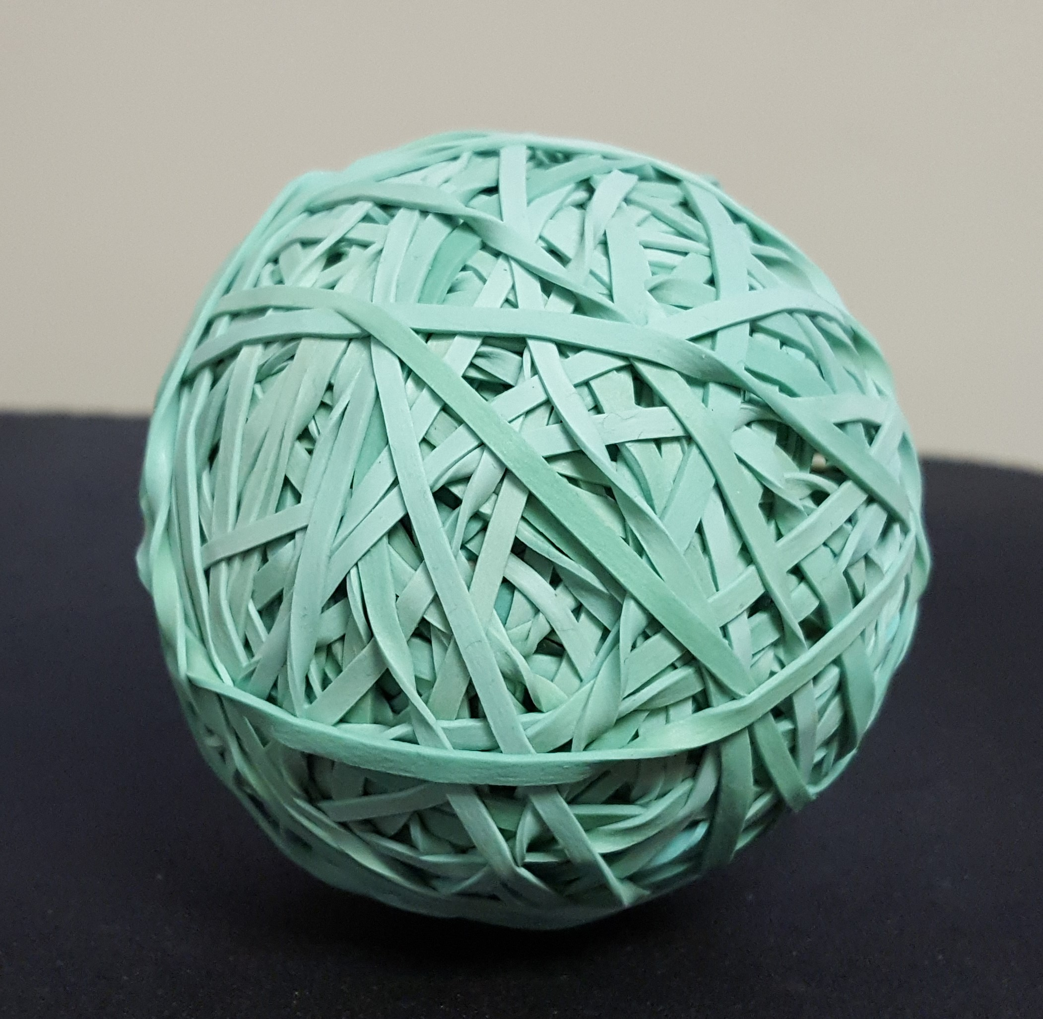 A rubber band ball made of over 300 rubber bands.